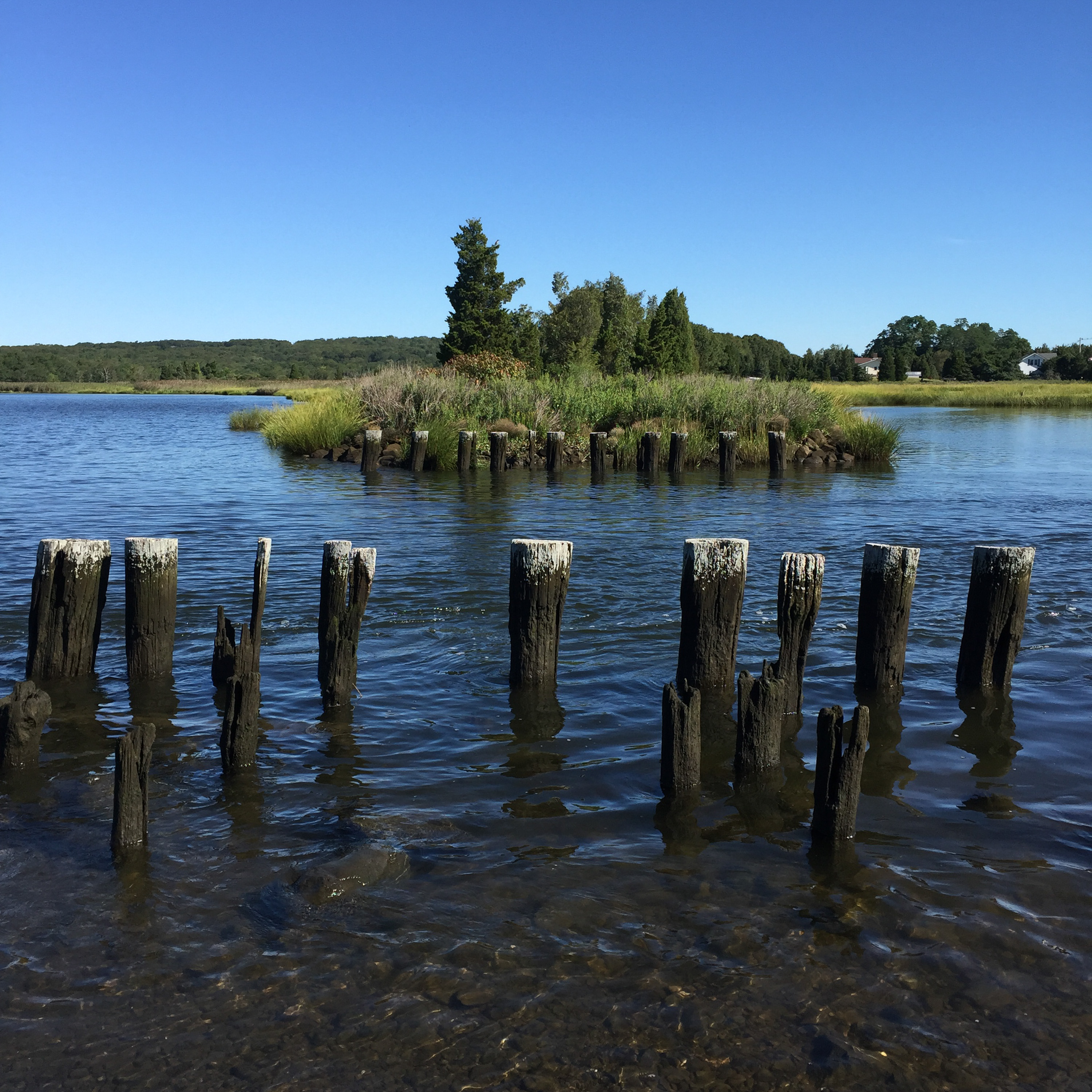 Broad Cove, Somerset Massachusetts